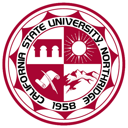 This is a logo of California State University